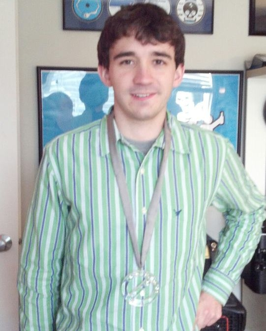 Ian Terry, winner of BB14 (US).